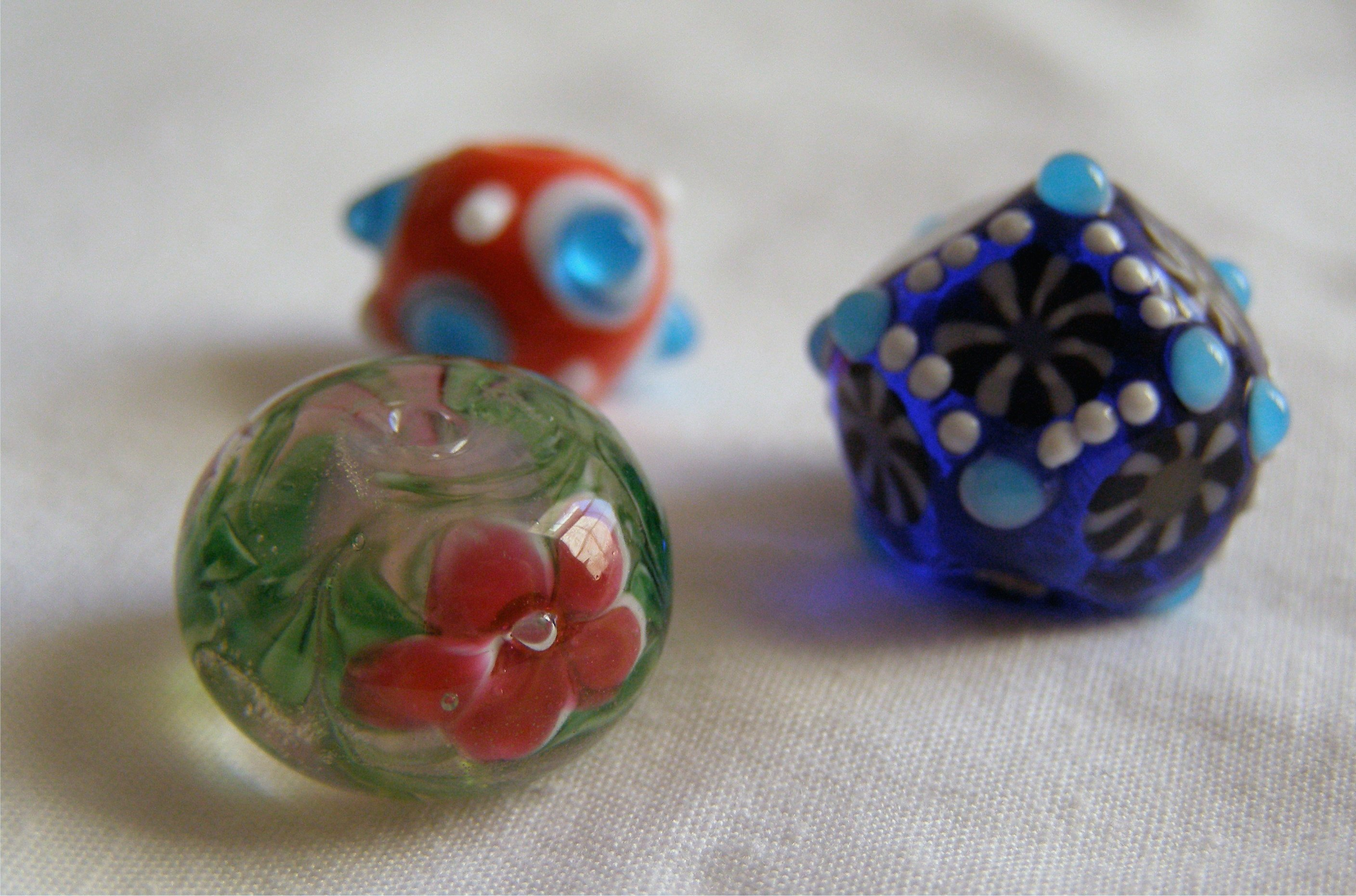 Glass Lampwork Beads, 10-15 mm